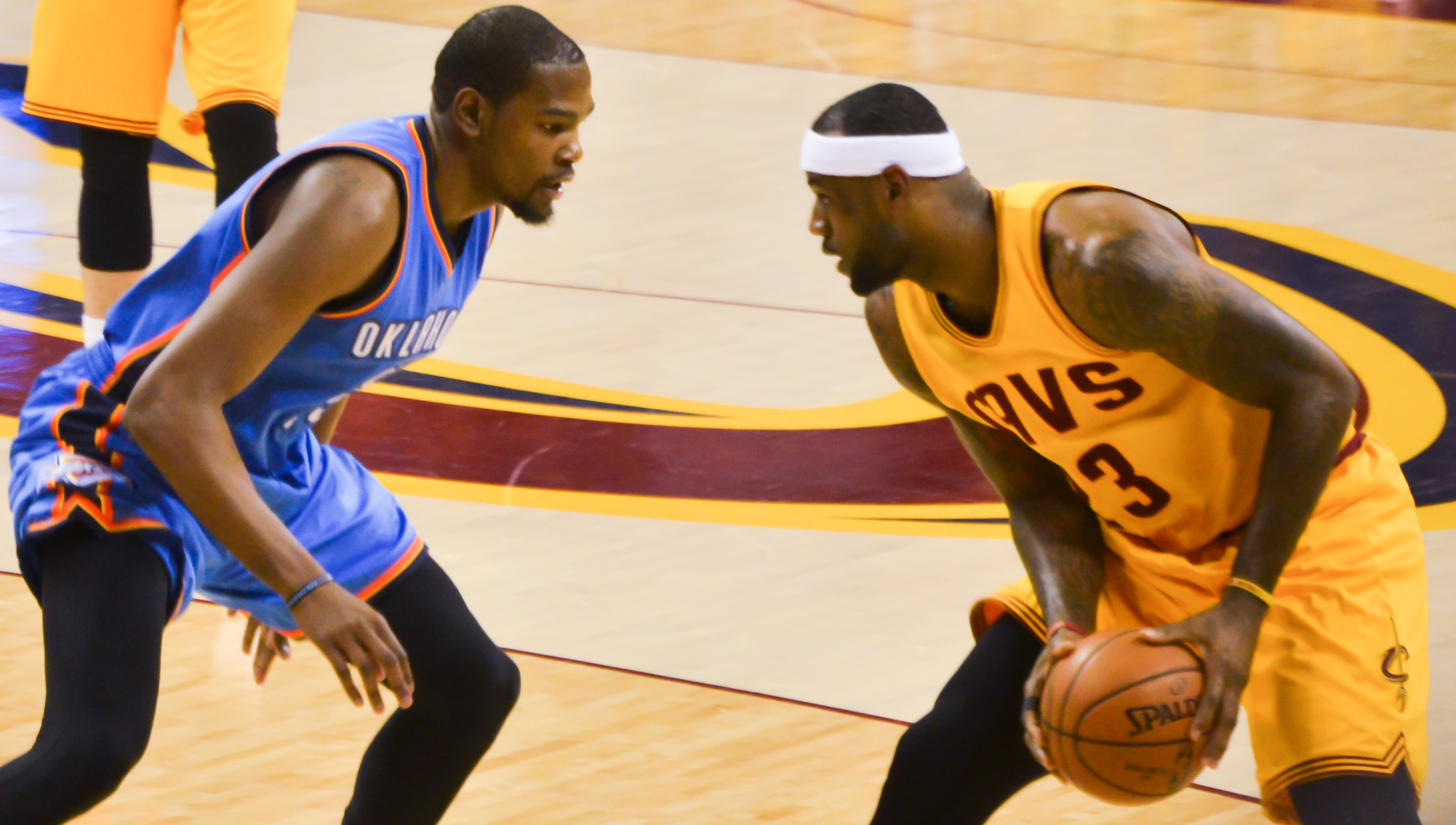 Kevin Durant confronts LeBron James in 2015.